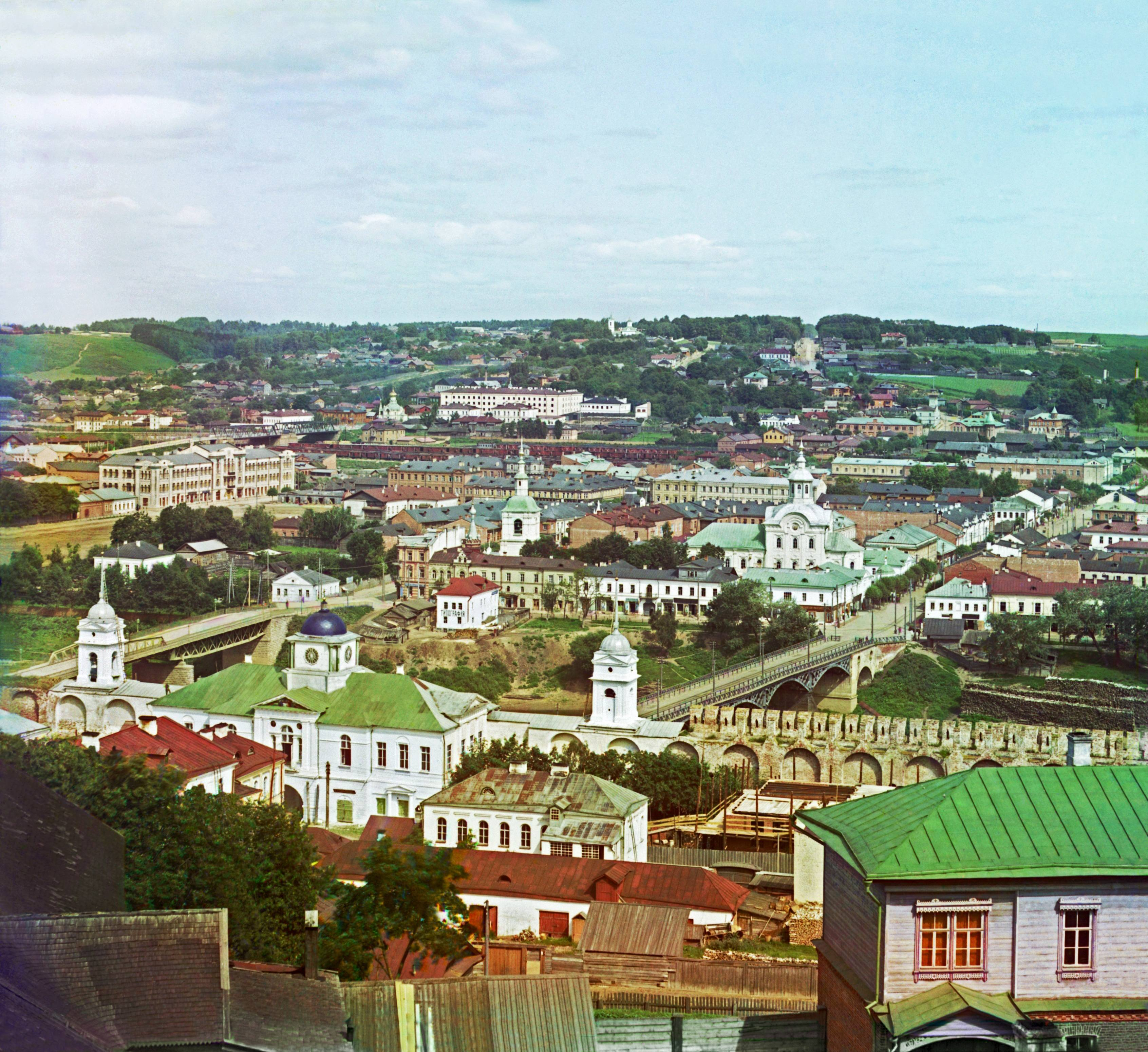 View of Smolensk from the Cathedral Hill.